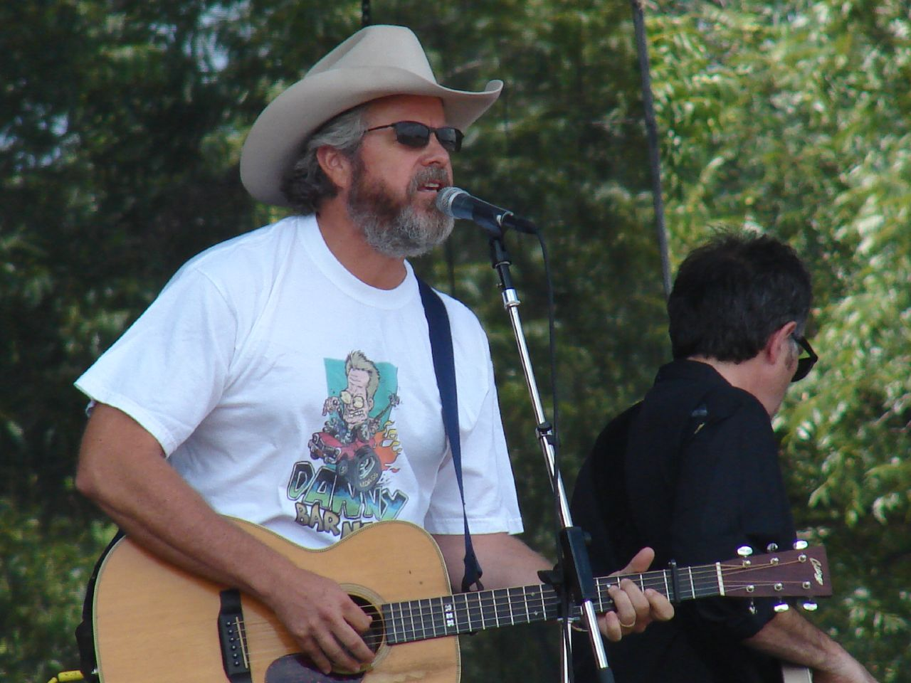 Robert Earl Keen